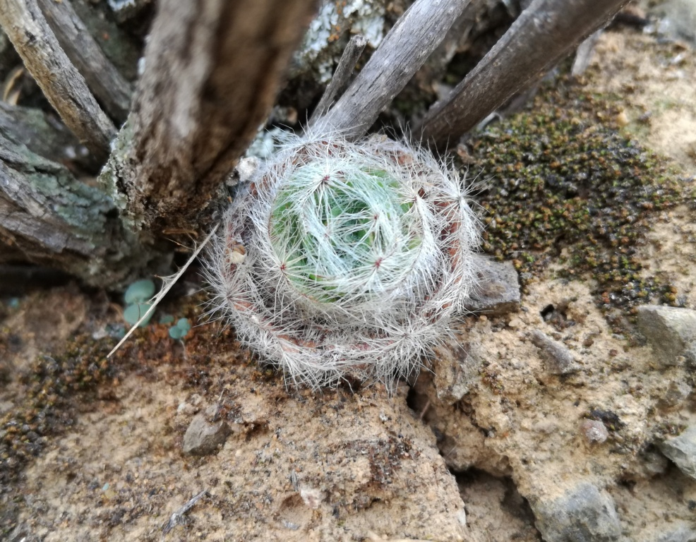 Crassula barbata - Karoo South Africa